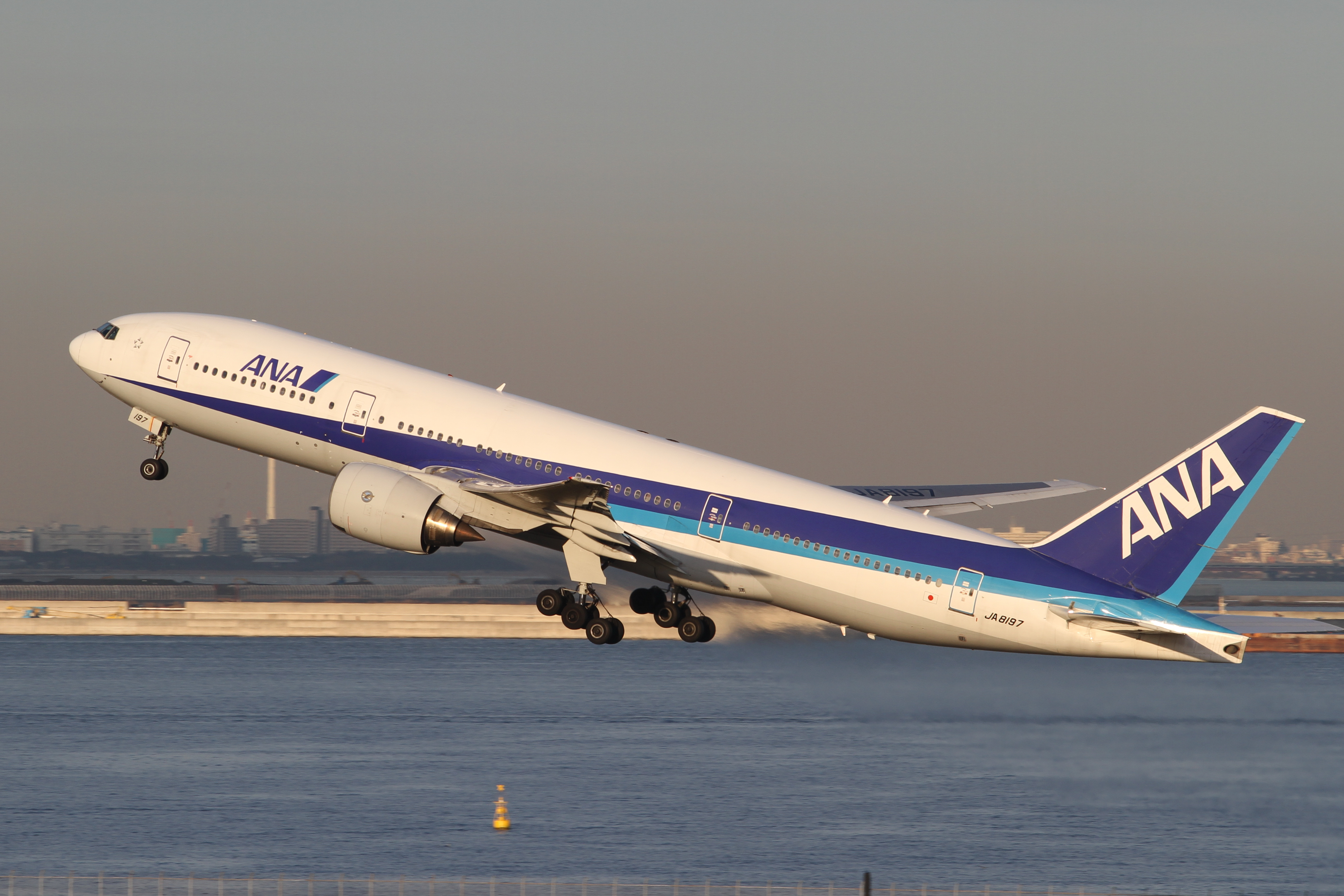 Tokyo International Airport, Boeing 777-281, c/n:27027, All Nippon Airways